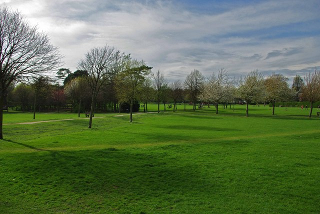 Gildredge Park Gildredge Park is to the Northwest of the town centre. Read all about it at